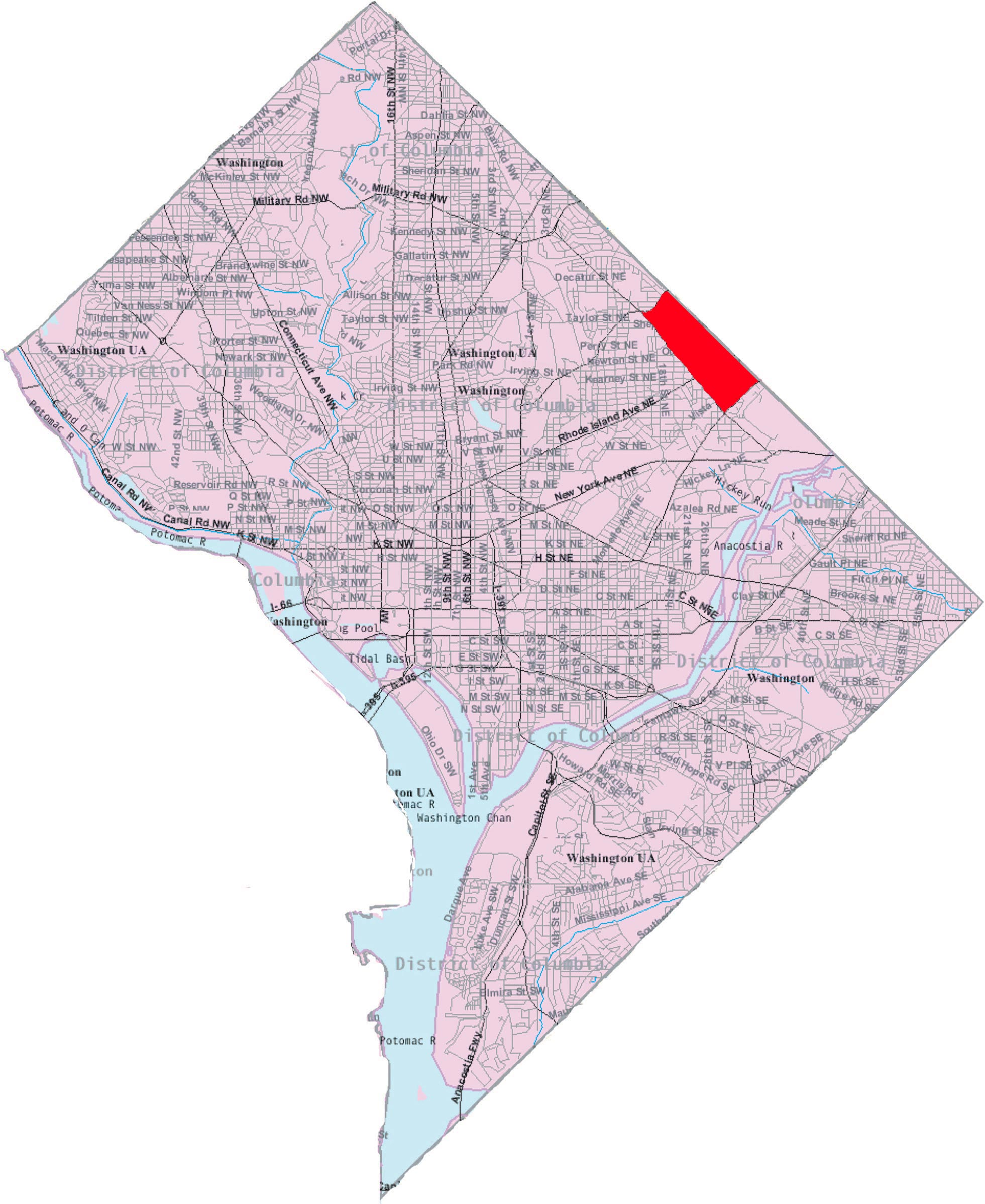 Self-made by applying personal edits to public domain (government) document